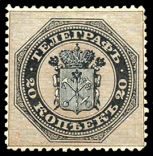 The first telegraph stamp of Russian empire, Saint-Petersberg, 20 kopecks, 1866 (only 10 exist)